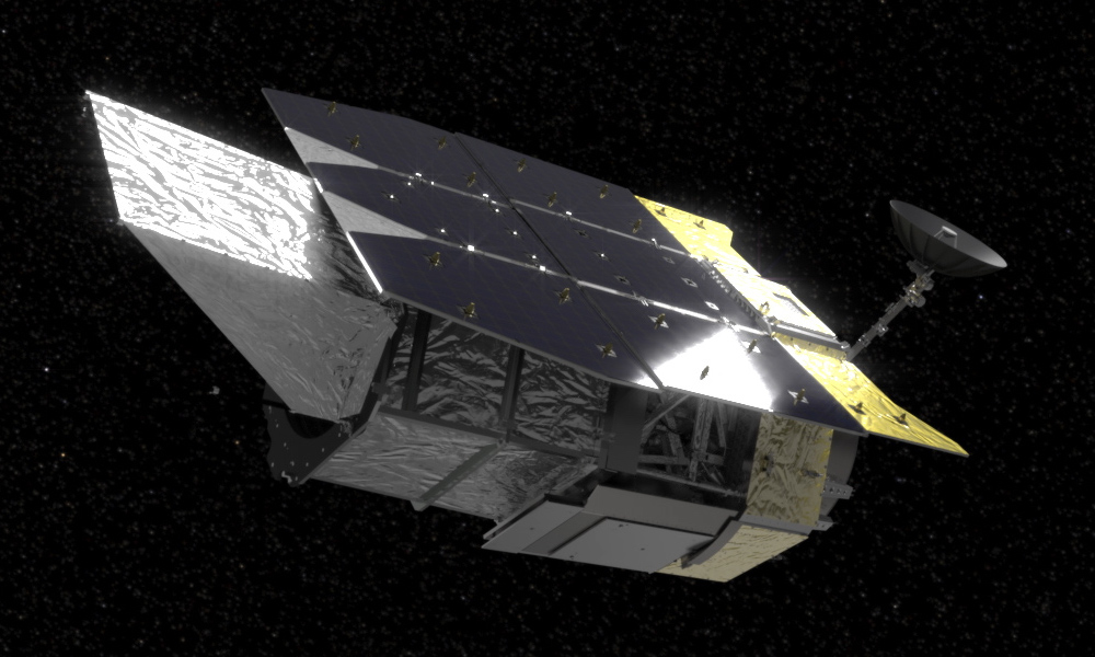 WFIRST rendering released by NASA in May 2020